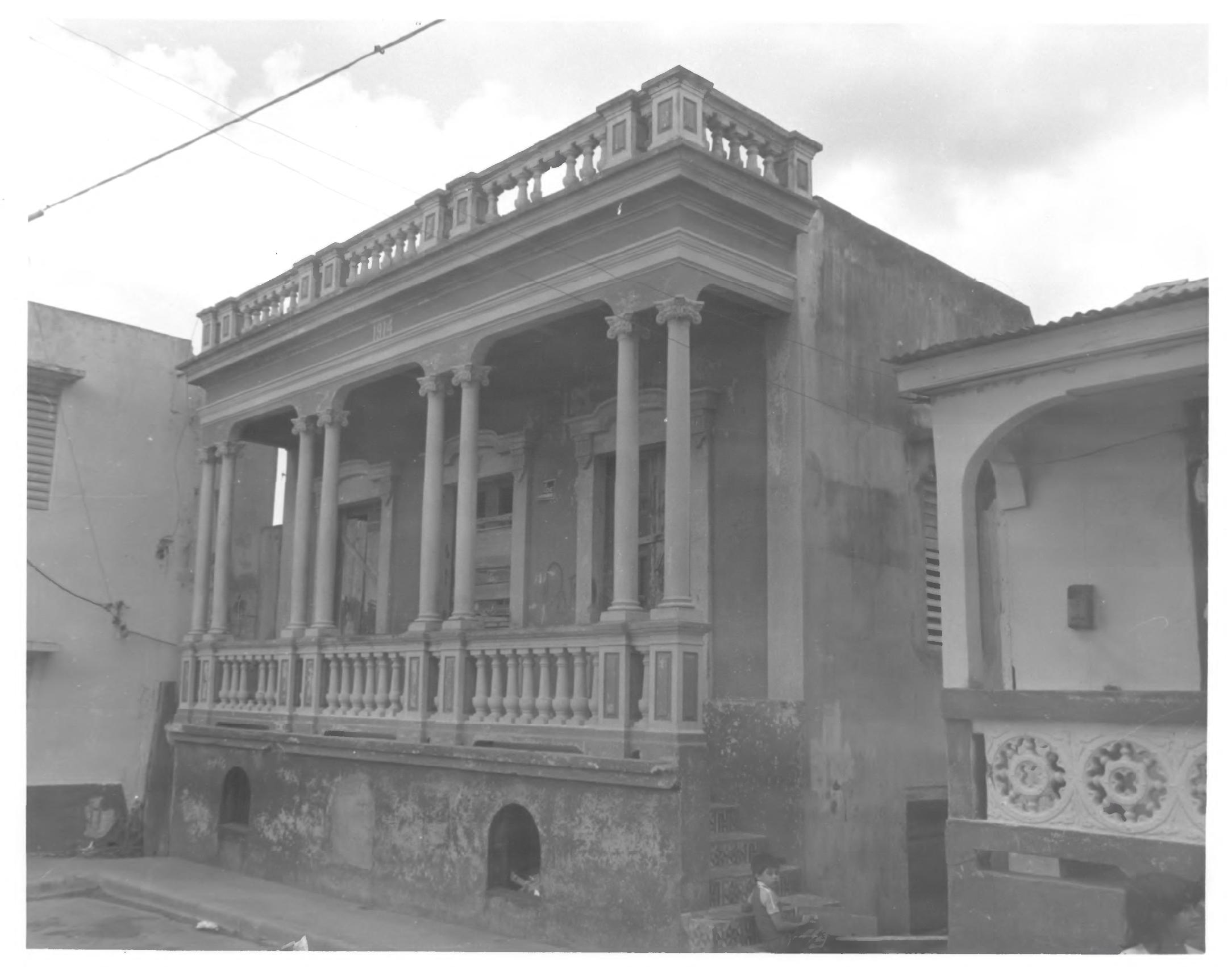 Casa de la Diosa Mita, 251 Fernandez Juncos Street, Arecibo, Puerto Rico.